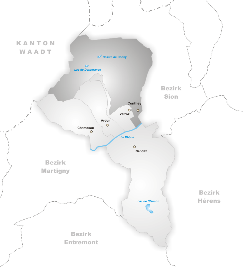 Municipality Conthey